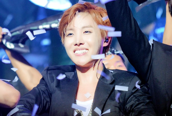 J-Hope at the Showcase album "DARK & WILD", on August 19, 2014.